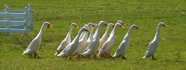 Indian Runner Ducks during a sheepdog demonstration at the 31st Wirral Show